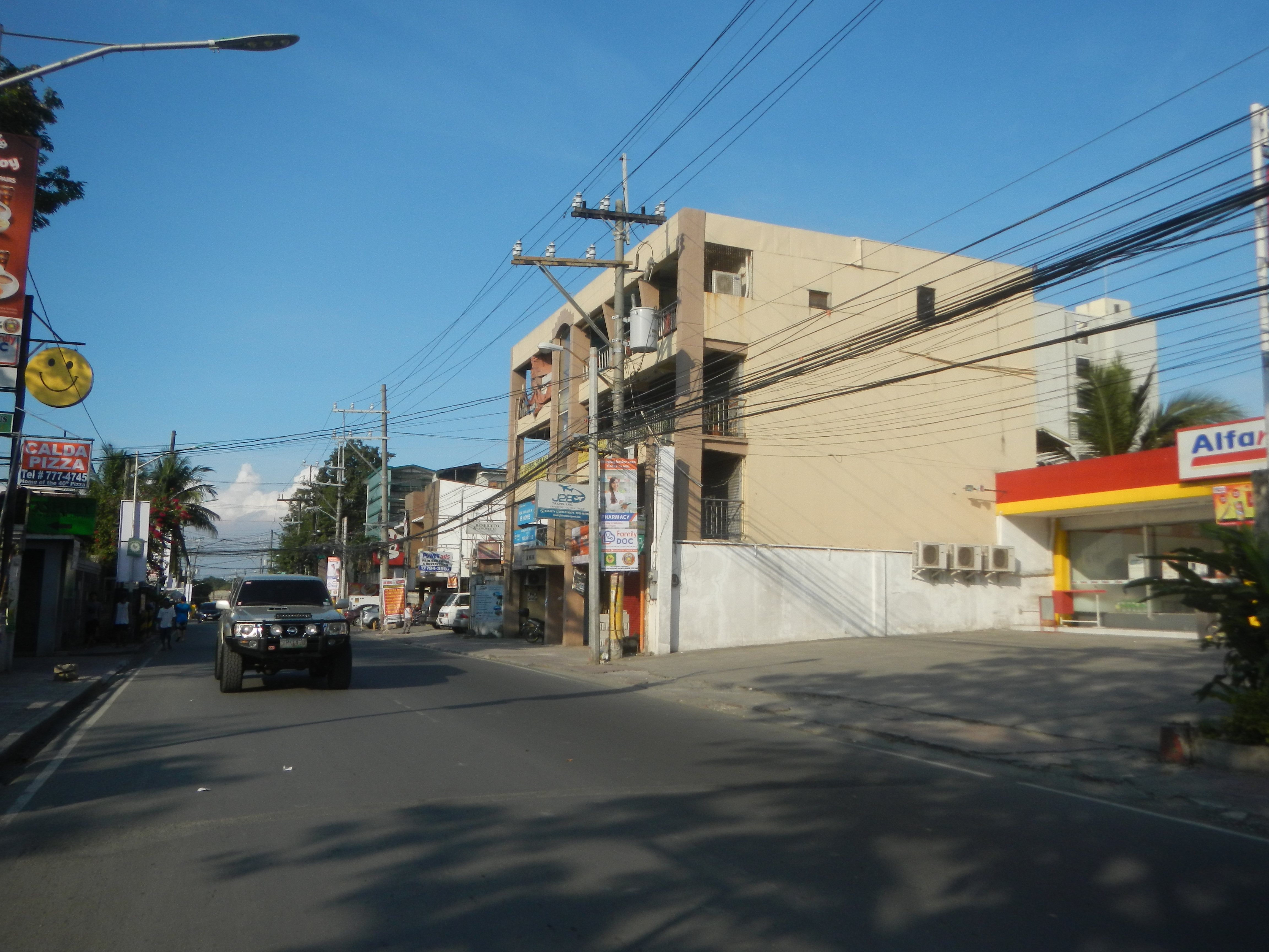 Parañaque City Hall Jollibee restaurants (Parañaque City) San Antonio Valley 1, San Antonio, Parañaque City Figaro Coffee San Antonio Valley 14°27'53"N 121°1'12"E Sucat Road 14°27'58"N 121°1'0"E Dr. A. Santos Avenue; Legislative districts of Parañaque 1st District, Districts and barangays, Barangays San Antonio 14°27'56"N 121°1'52"E from San Isidro, Parañaque San Isidro 14°28'1"N 121°0'40"E San Dionisio 14°29'2"N 120°59'33"E La Huerta 14°29'50"N 120°59'43"E beside Santo Niño 14°30'14"N 121°0'11"E Baclaran, Parañaque City (Note: Judge Florentino Floro, the owner, to repeat, Donor Florentino Floro of all these photos hereby donate gratuitously, freely and unconditionally Judge Floro all these photos to and for Wikimedia Commons, exclusively, for public use of the public domain, and again without any condition whatsoever).